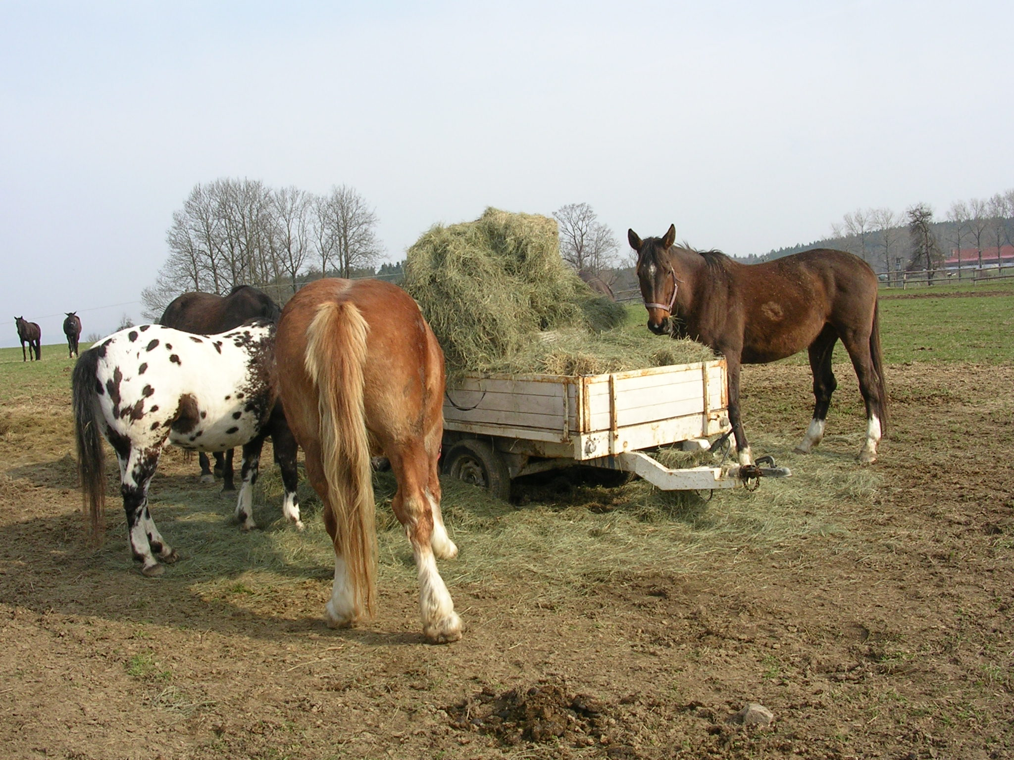 Kačlehy, Jindřichův Hradec District, the Czech Republic.